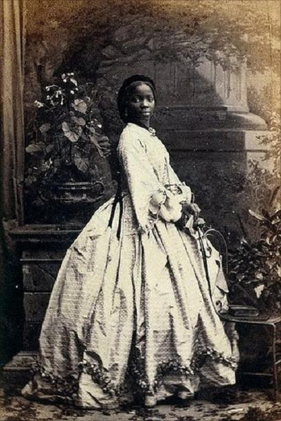 Portrait of Sara Forbes Bonetta